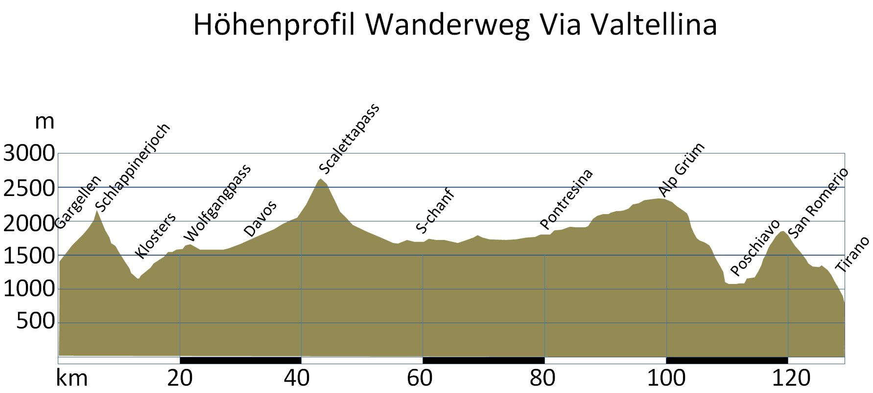 Profile of the hiking trail Via Valtellina from Gargellen (Austria) to Tirano (Itaien).